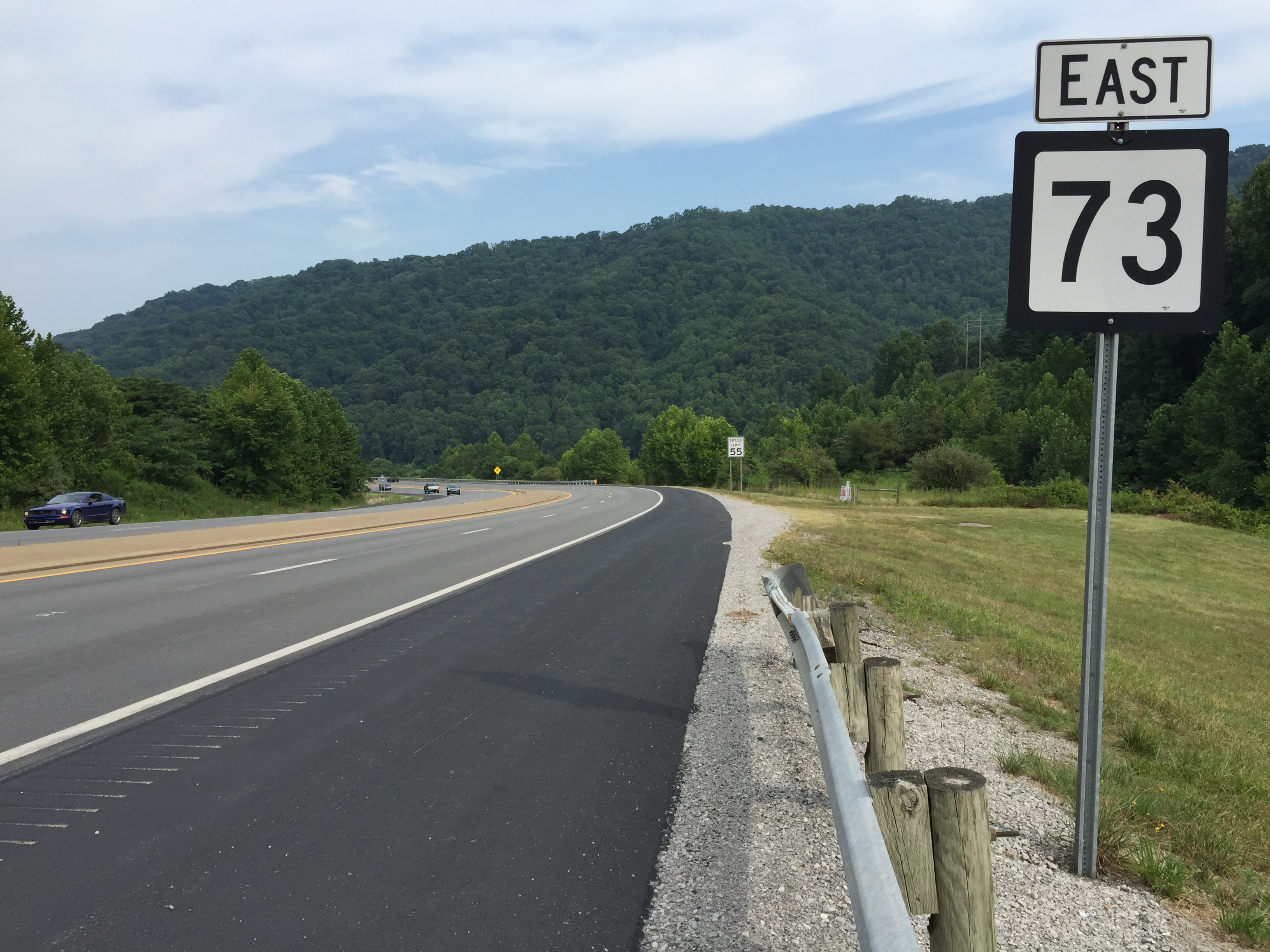 View east along West Virginia State Route 73 just east of U.S. Route 119 in Mount Gay-Shamrock, Logan County, West Virginia